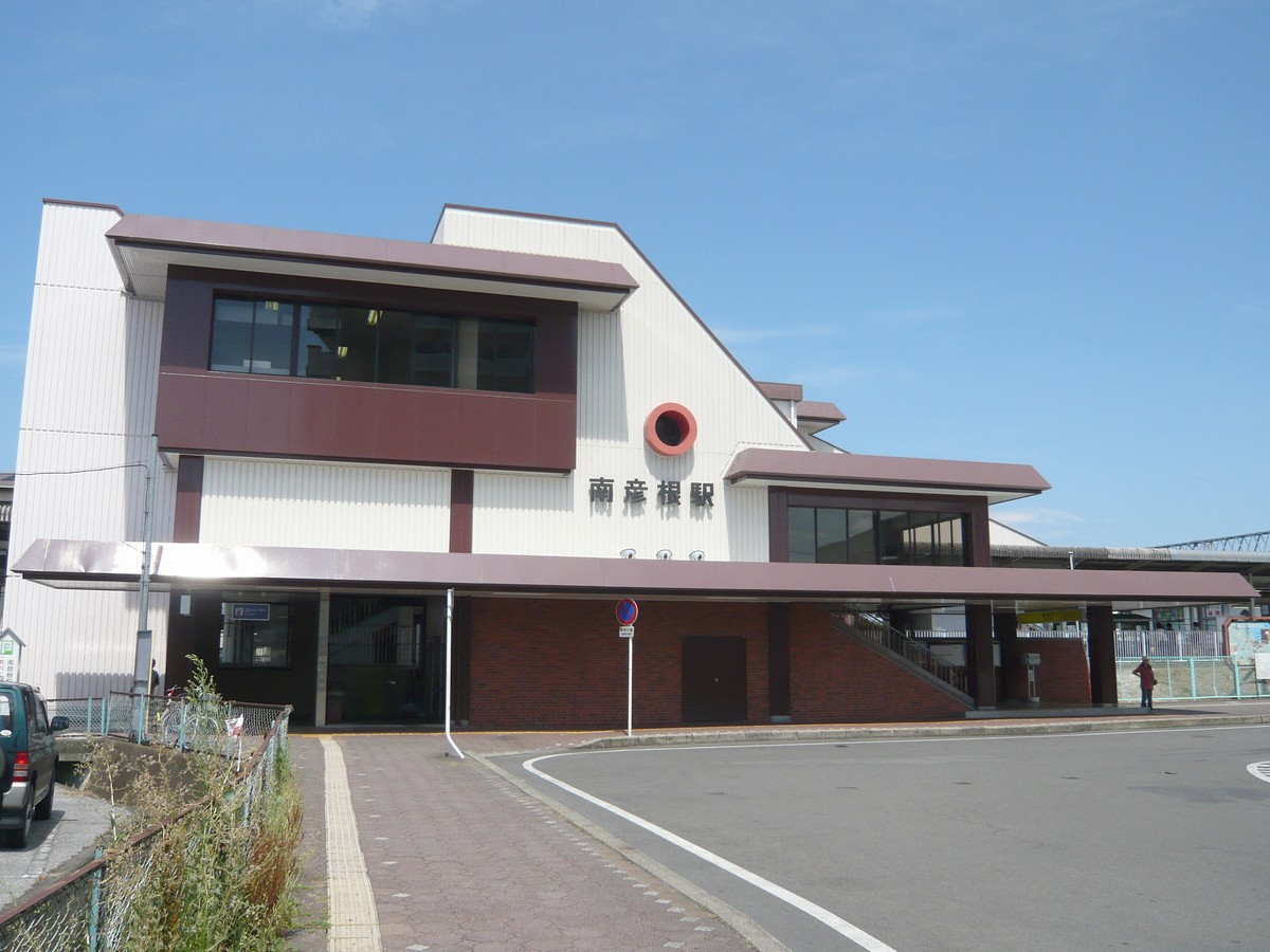 JR南彦根駅南口 Category:鉄道駅前画像